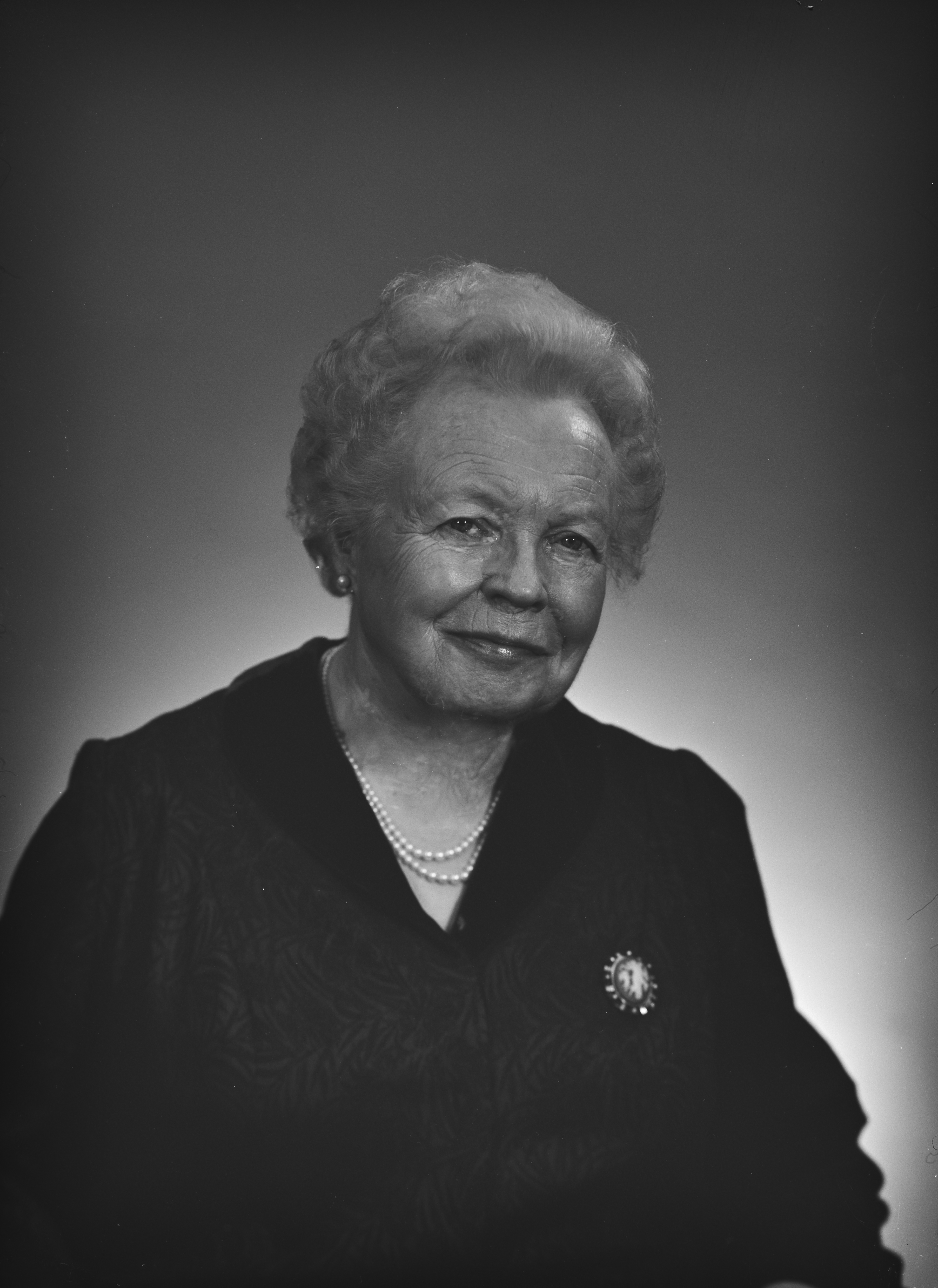 Photograph of the Finnish educationist Anna-Liisa Sysiharju (1919–2014).